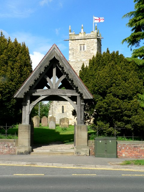 Lych Gate, All Saints Parish Church, Shiptonthorpe, East Riding of Yorkshire, England.